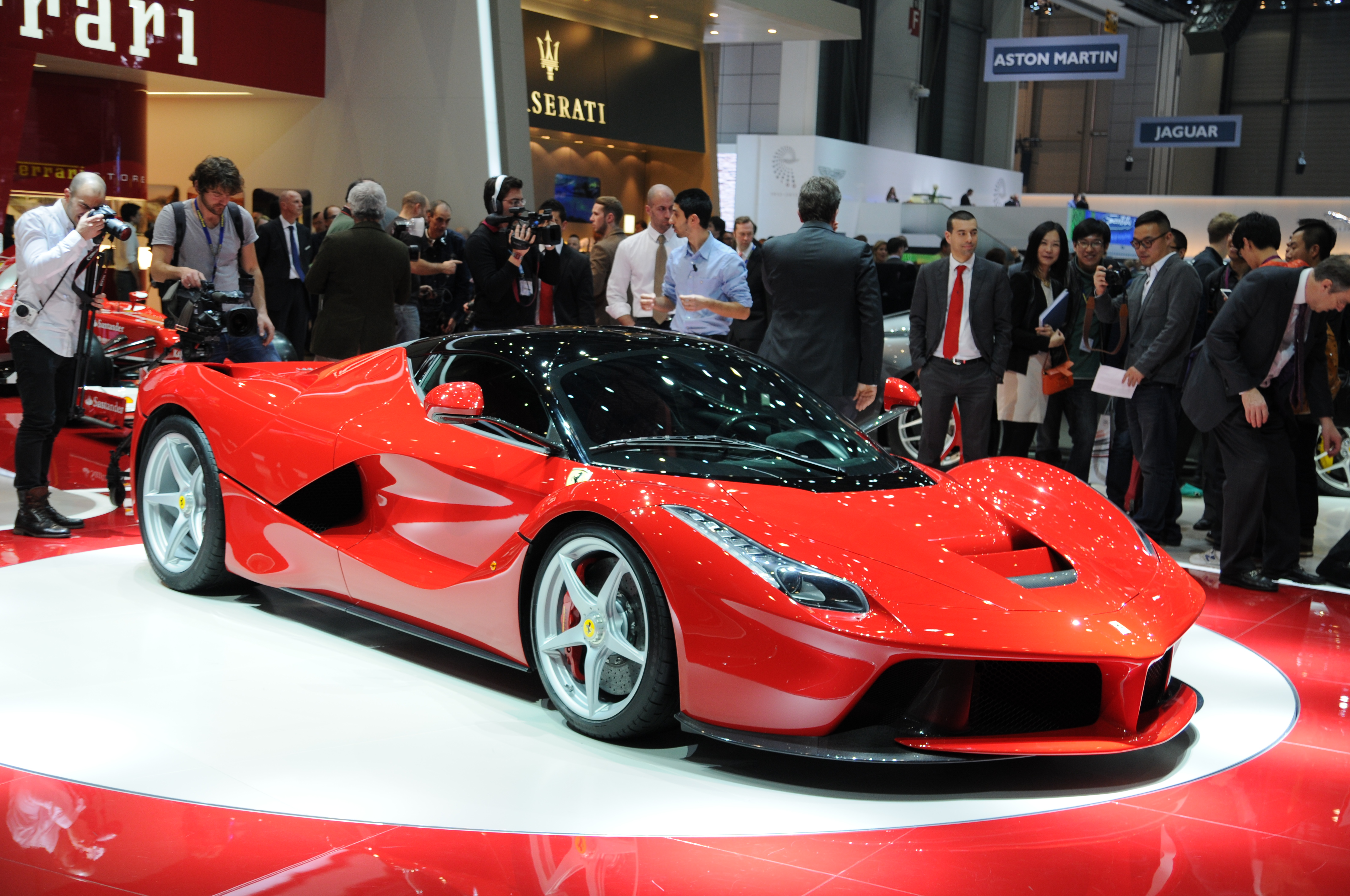 Geneva Motor Show 2013 (photos taken on the first press day)